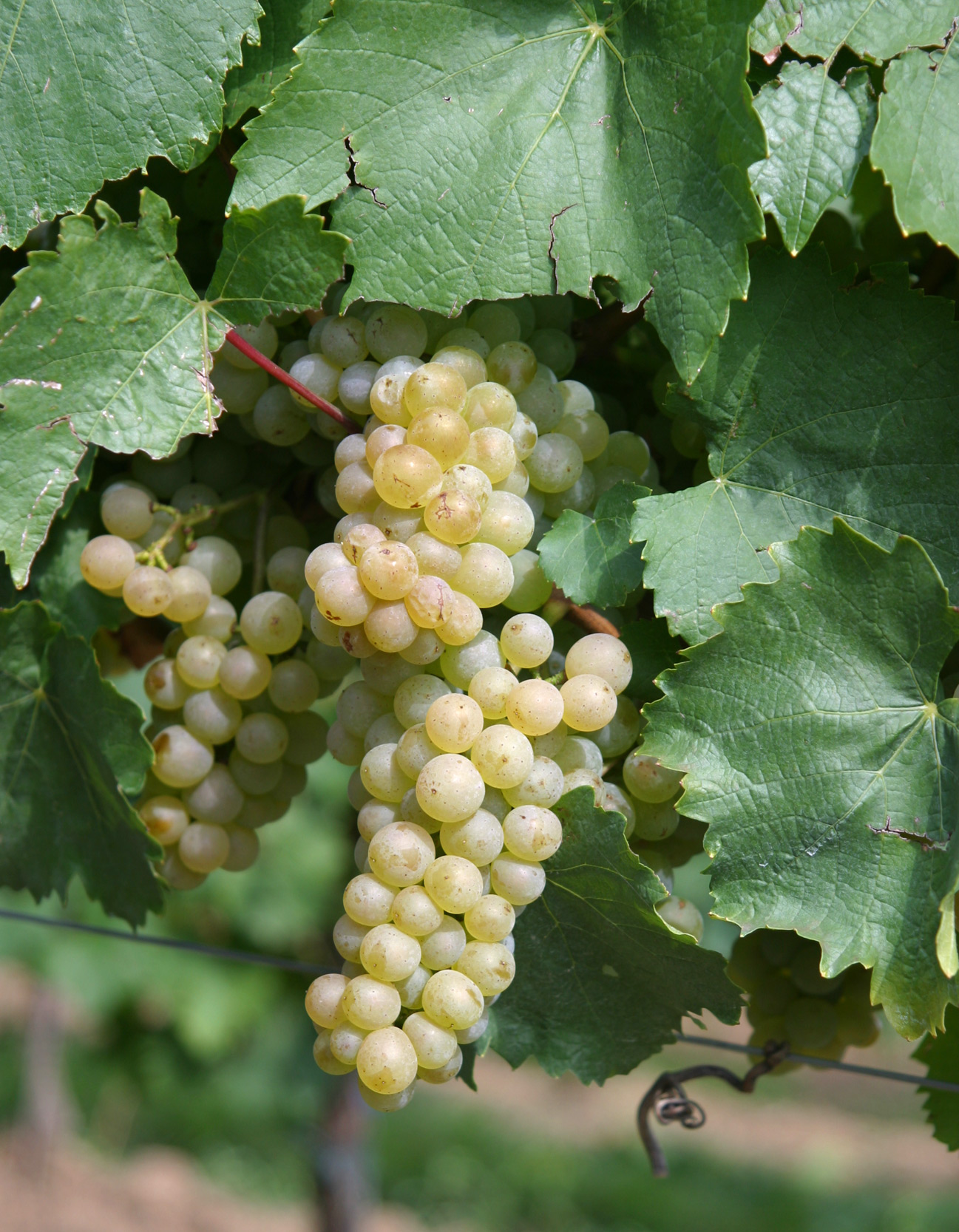 Leafs and grapes of the grape variety Auxerrois